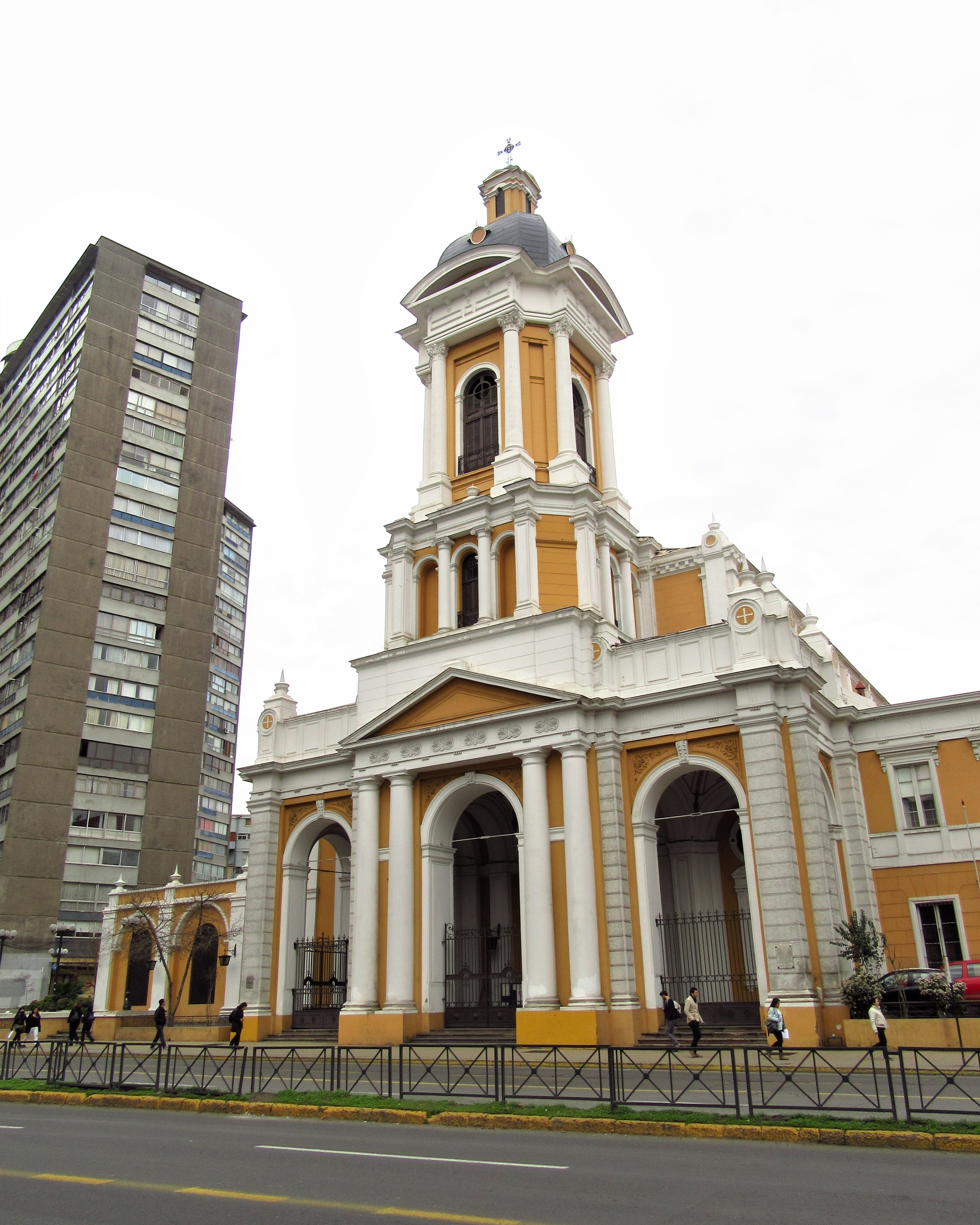 2017 in Santiago de Chile